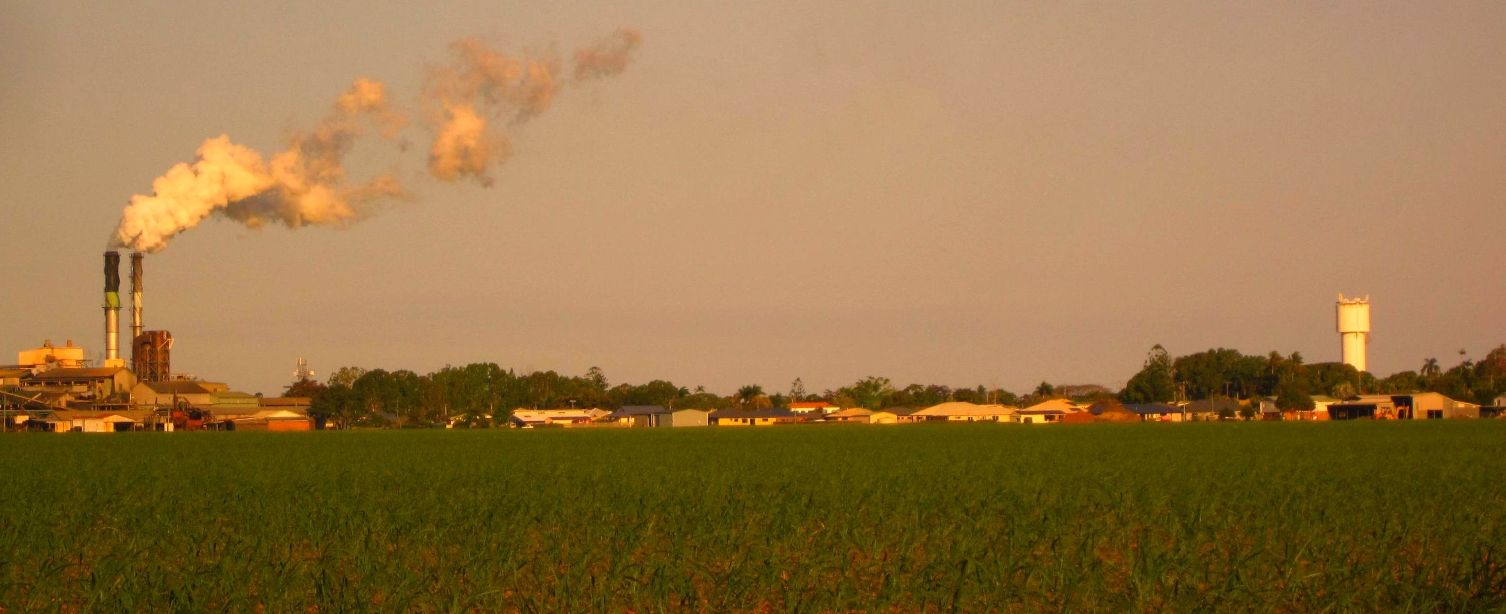 A panorama of the Proserpine Skyline from the NW.